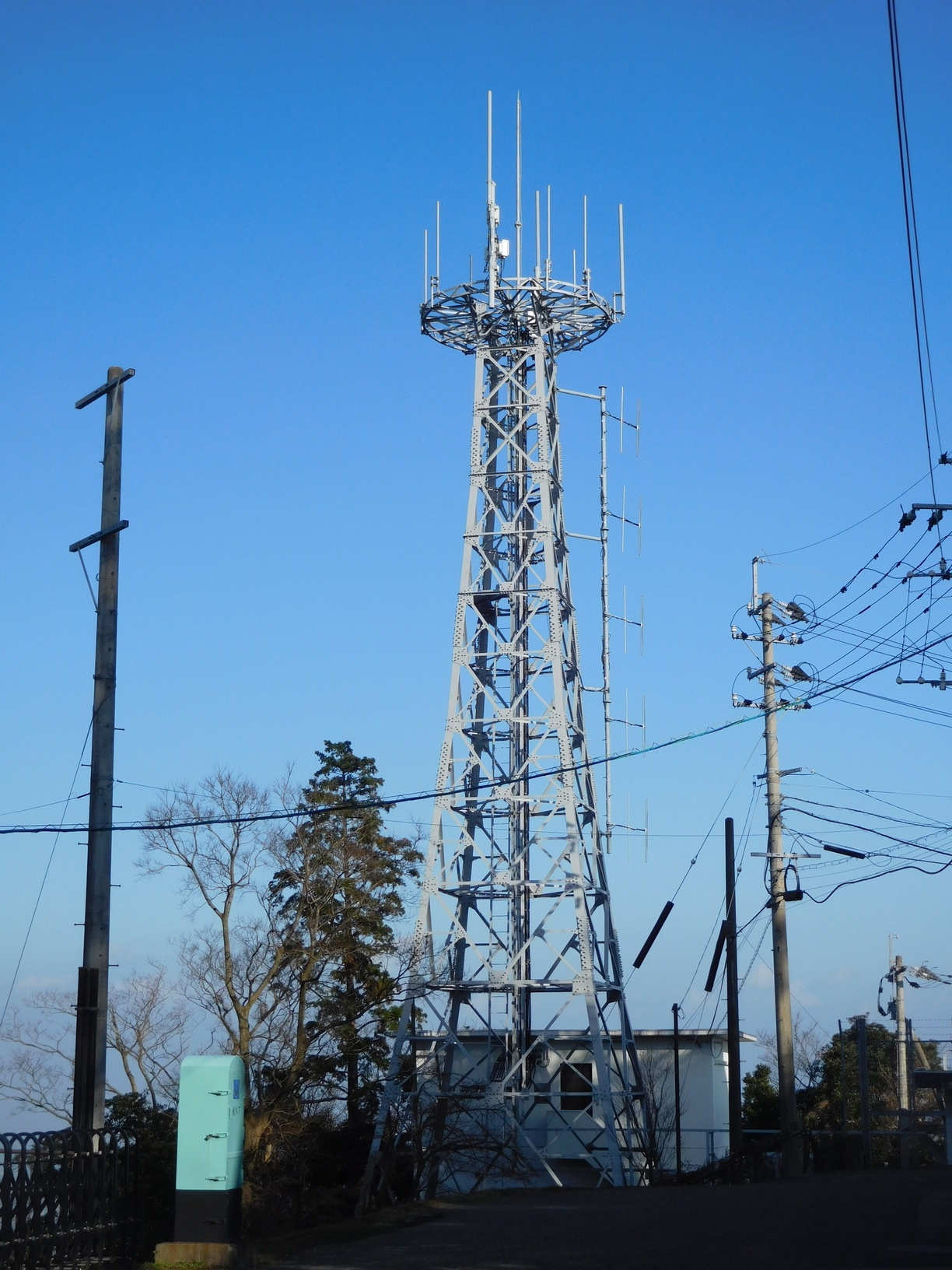 Kumamoto City FM (FM791) Transmitting Tower in 2015 (Kumamoto City, Japan)